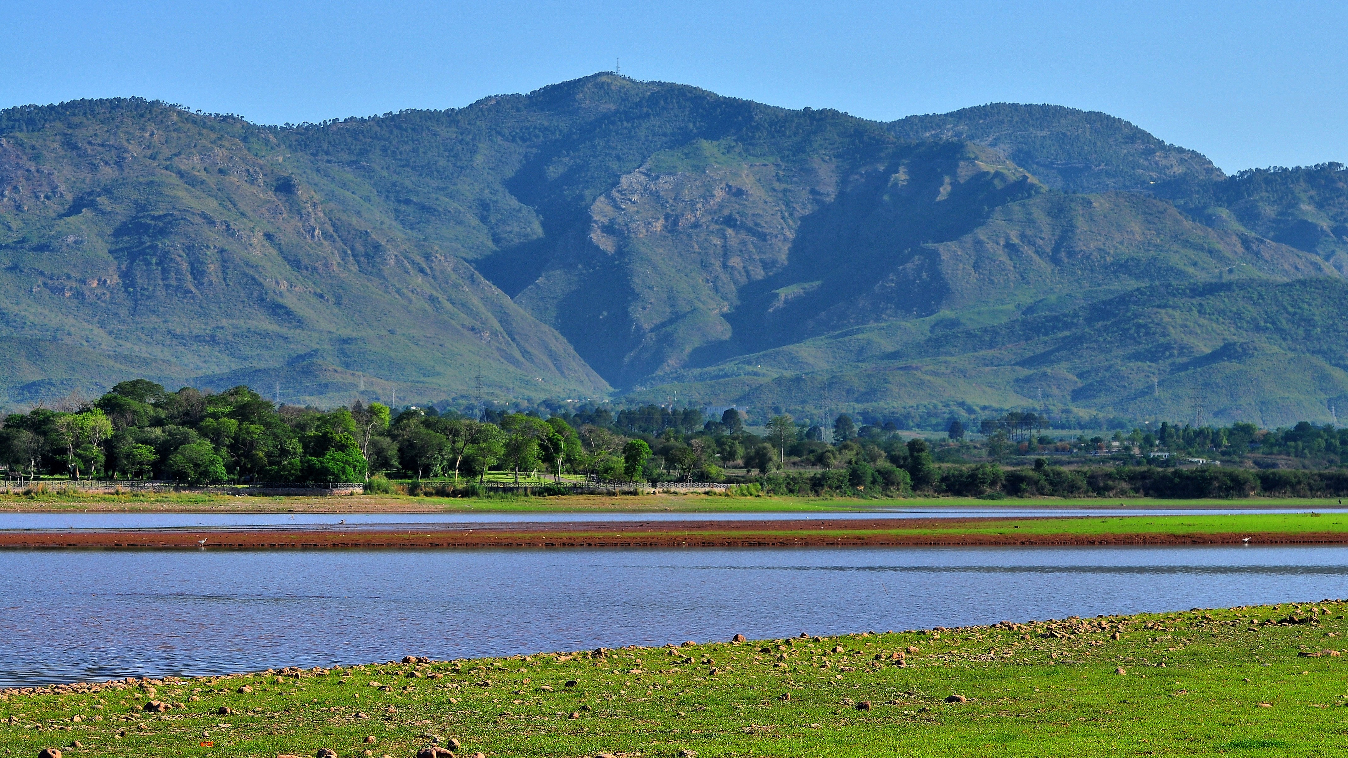 Eastern banks of Rawal Lake with Margalla Hills in the background